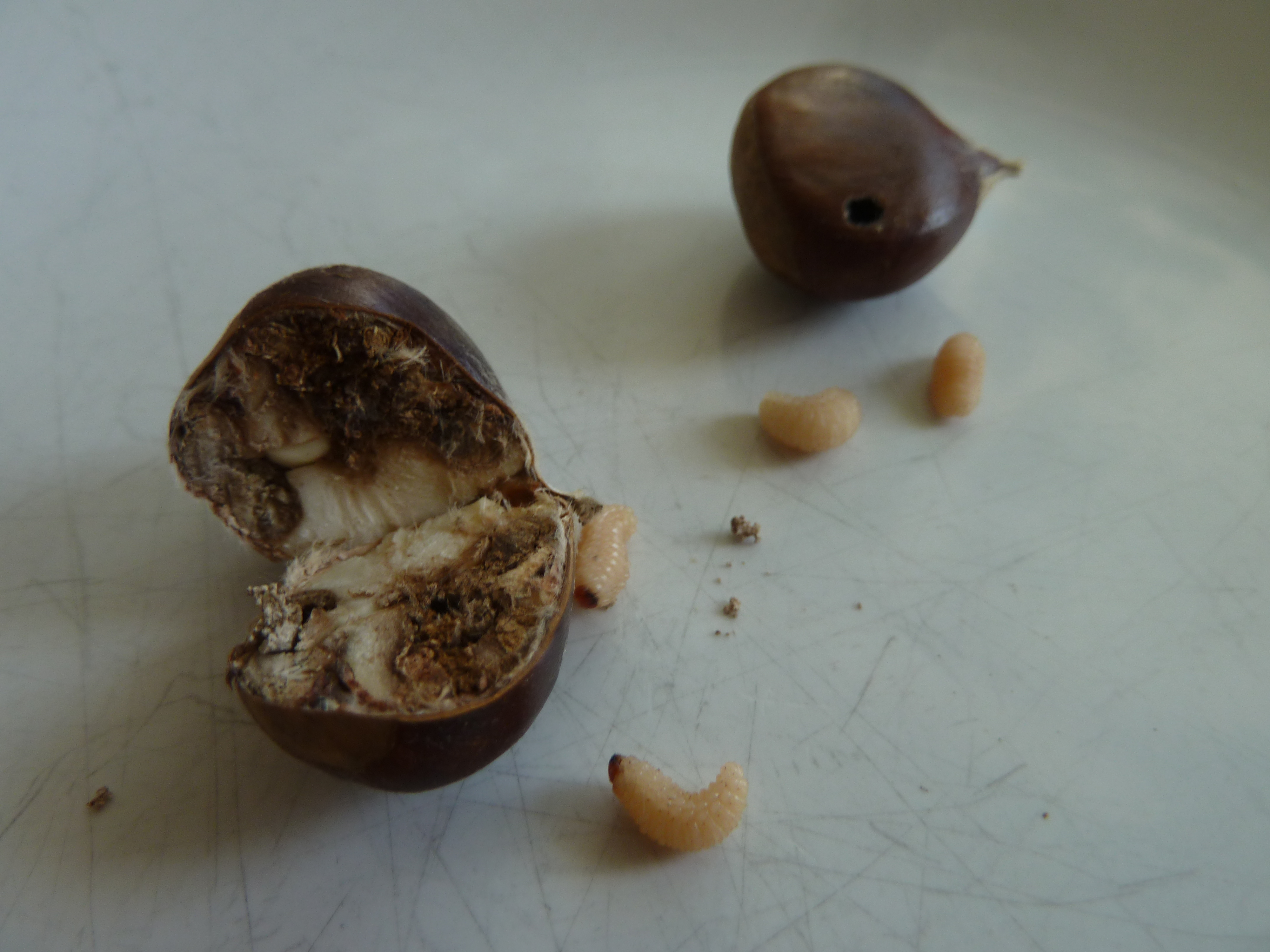 presumably: Larvae of the chestnut weevil (curculio elephas). Larvae from chestnuts from the south of Brittany, France.